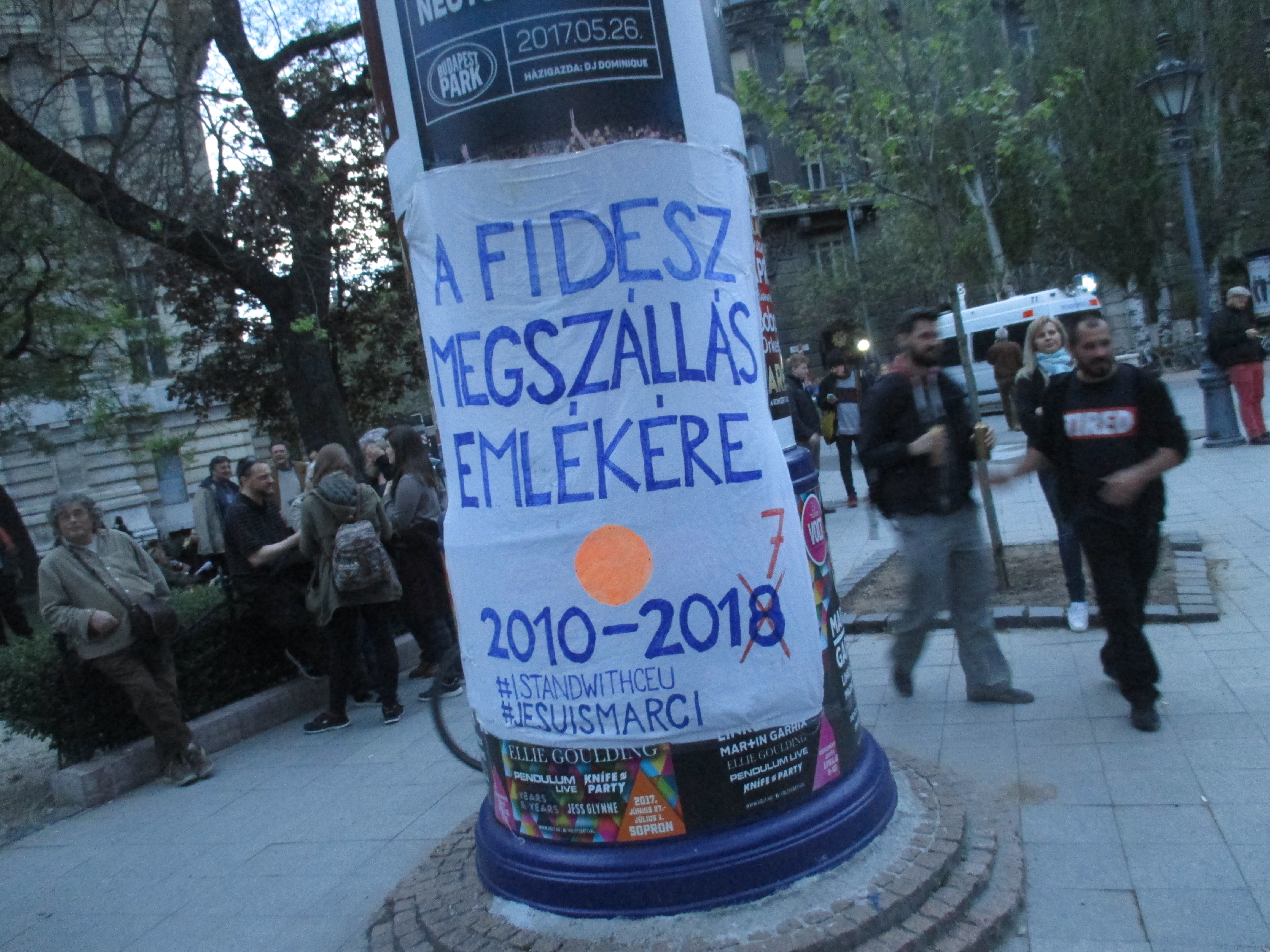 Demonstration